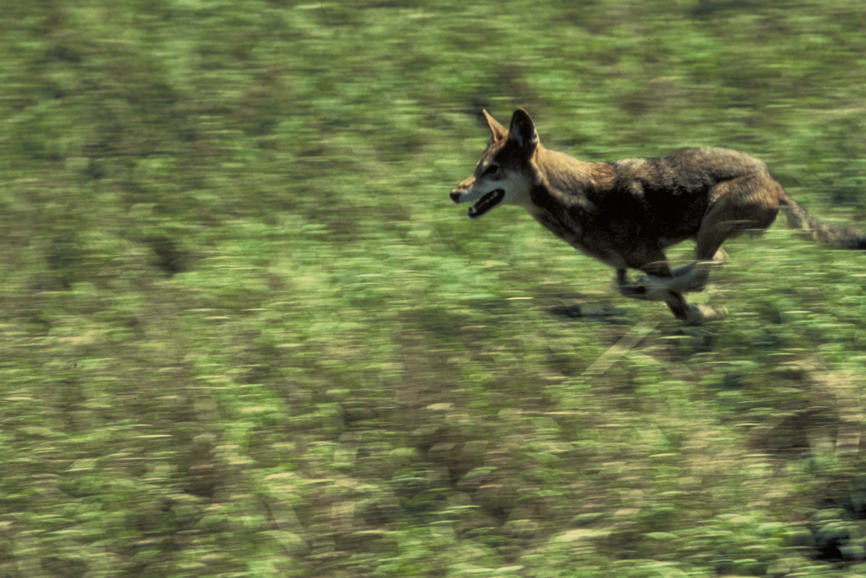 Red wolf running